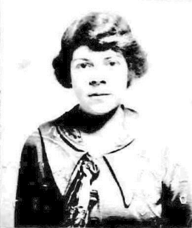 US Passport application photo for Josephine Dillon from 1918